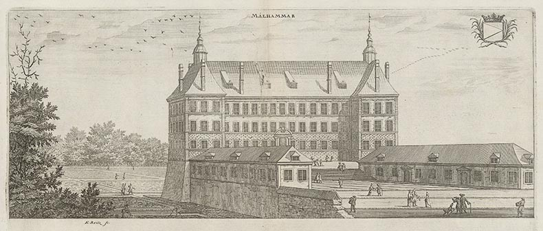 Målhammar castle